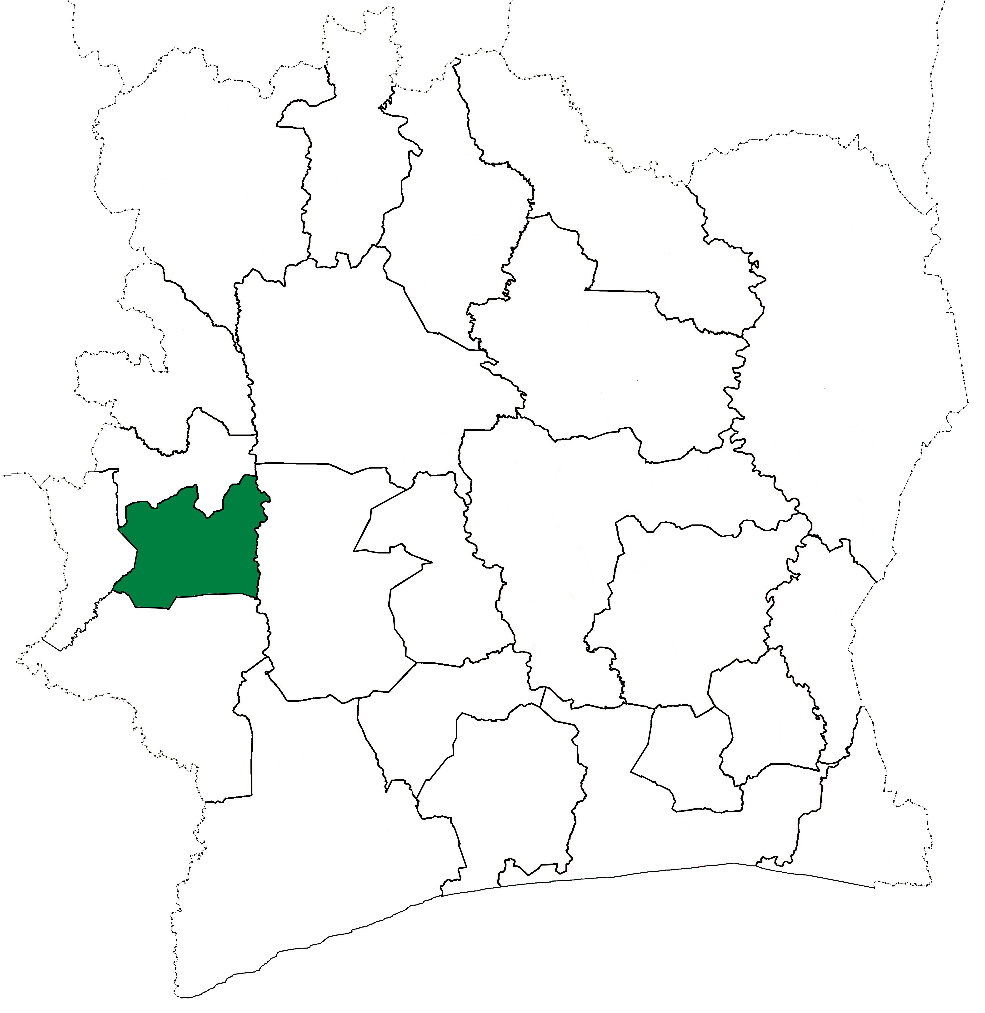 Locator map for Man Department in Côte d'Ivoire when the 24 new departments were created in 1969. Man Department kept these boundaries until 1988, but other departments began to be divided in 1974.